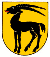 coat of arms of the Canton of Glarus (Switzerland)